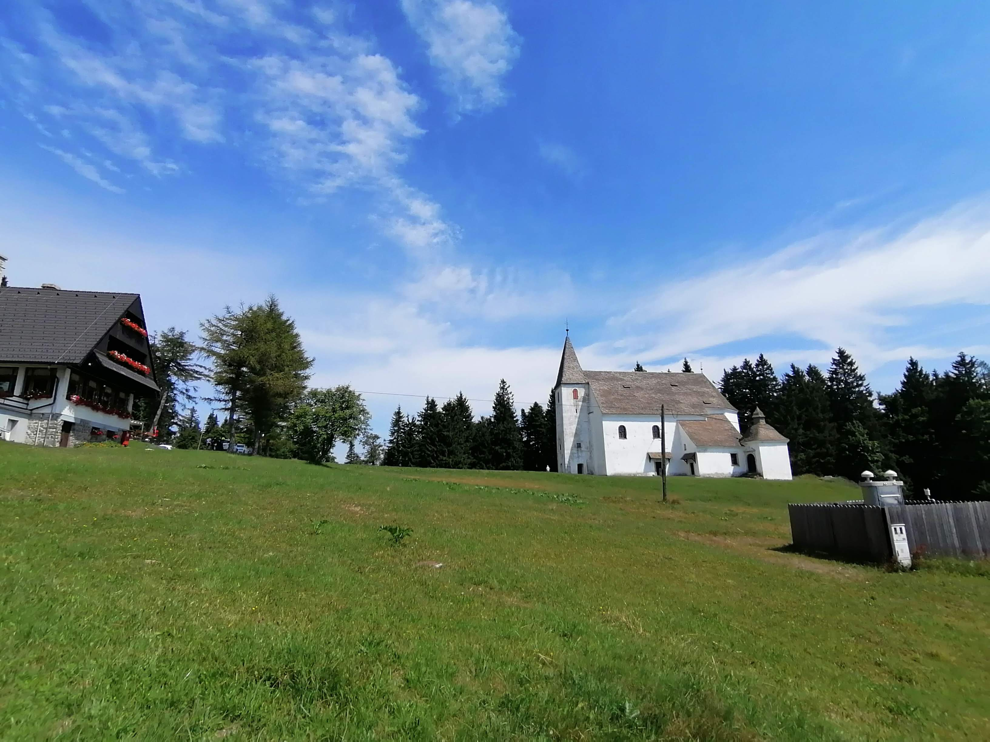 Areh, Pohorje